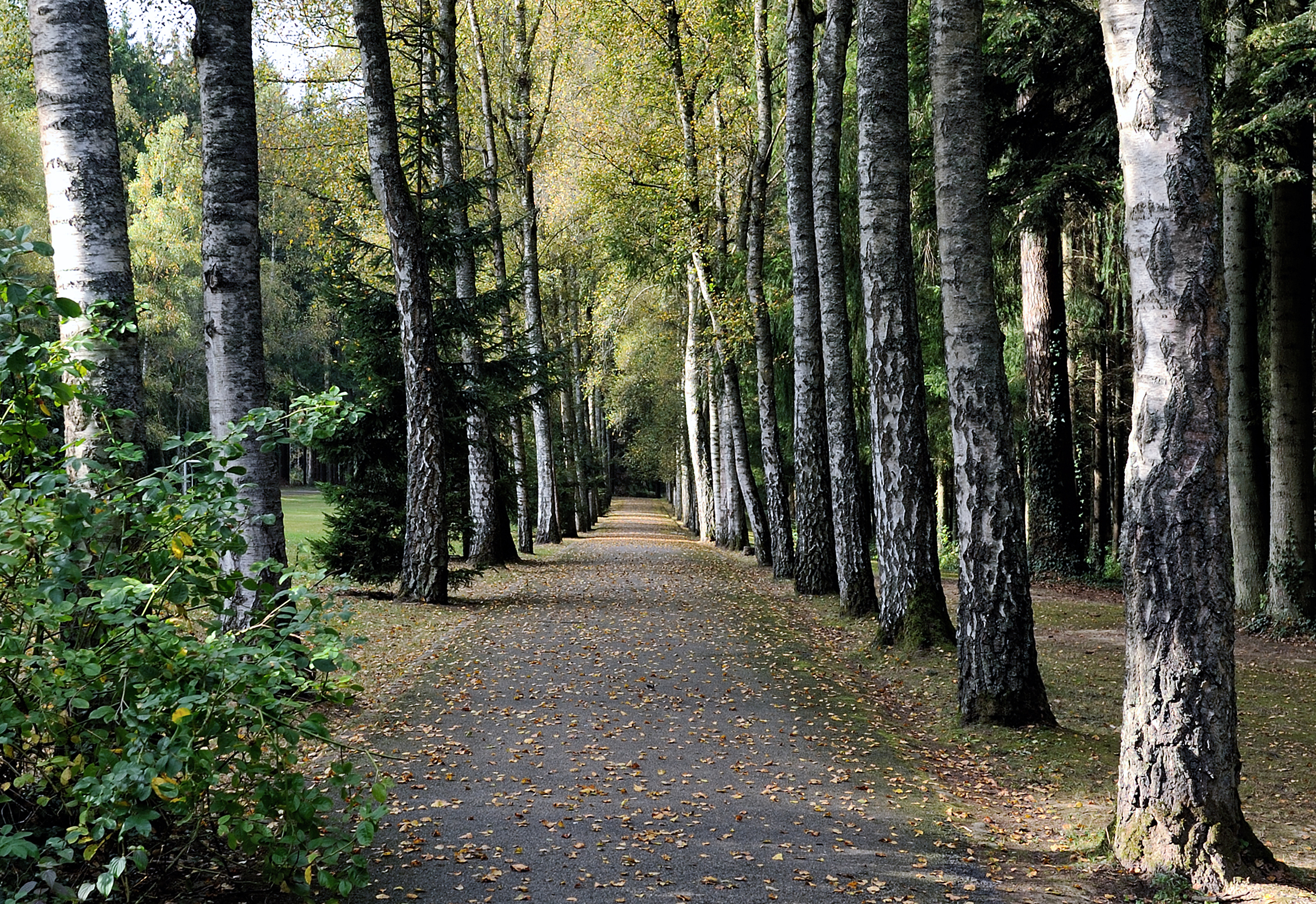 Birch walk with Betula pendula in the park of the former Institut Héliar at Weilerbach, Luxembourg